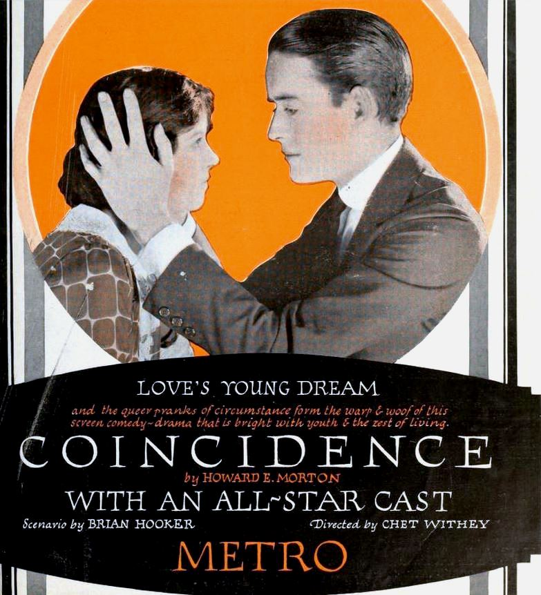 Ad for the American film Coincidence (1921) with June Walker and Robert Harron, on the cover of the May 8, 1921 Film Daily.